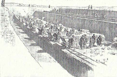 Excavation on the citadel of Susa (Iran). The trenches in December 1898. Drawing after photograph by De Morgan or André